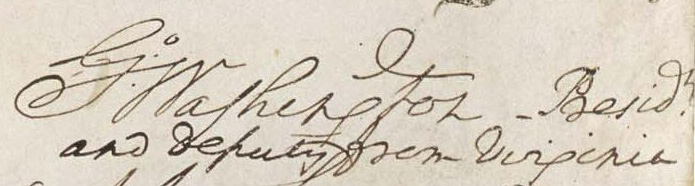 Signature of George Washington on the U.S. Constitution - specifically reading: "Go. Washington—Presidt. and deputy from Virginia"